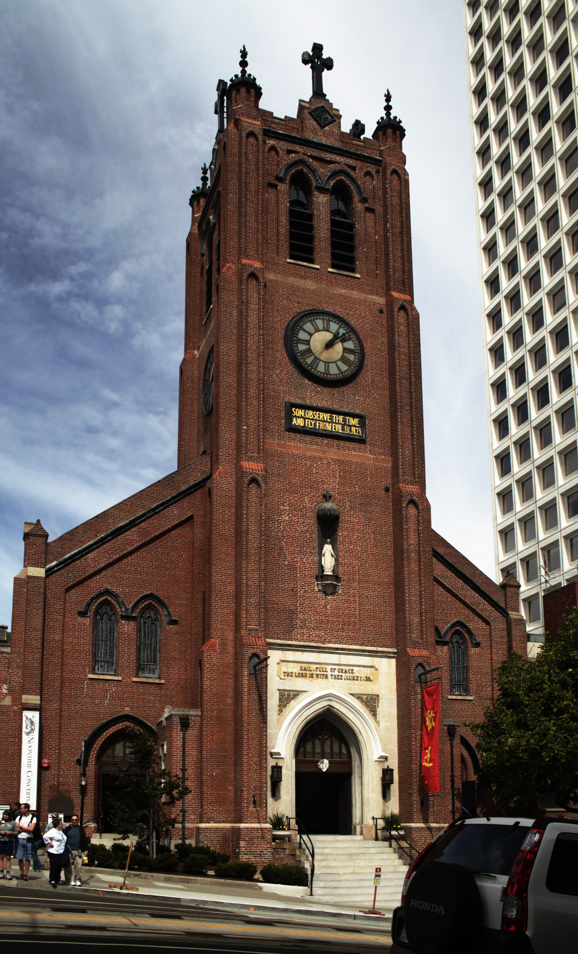 Old Saint Mary's Cathedral